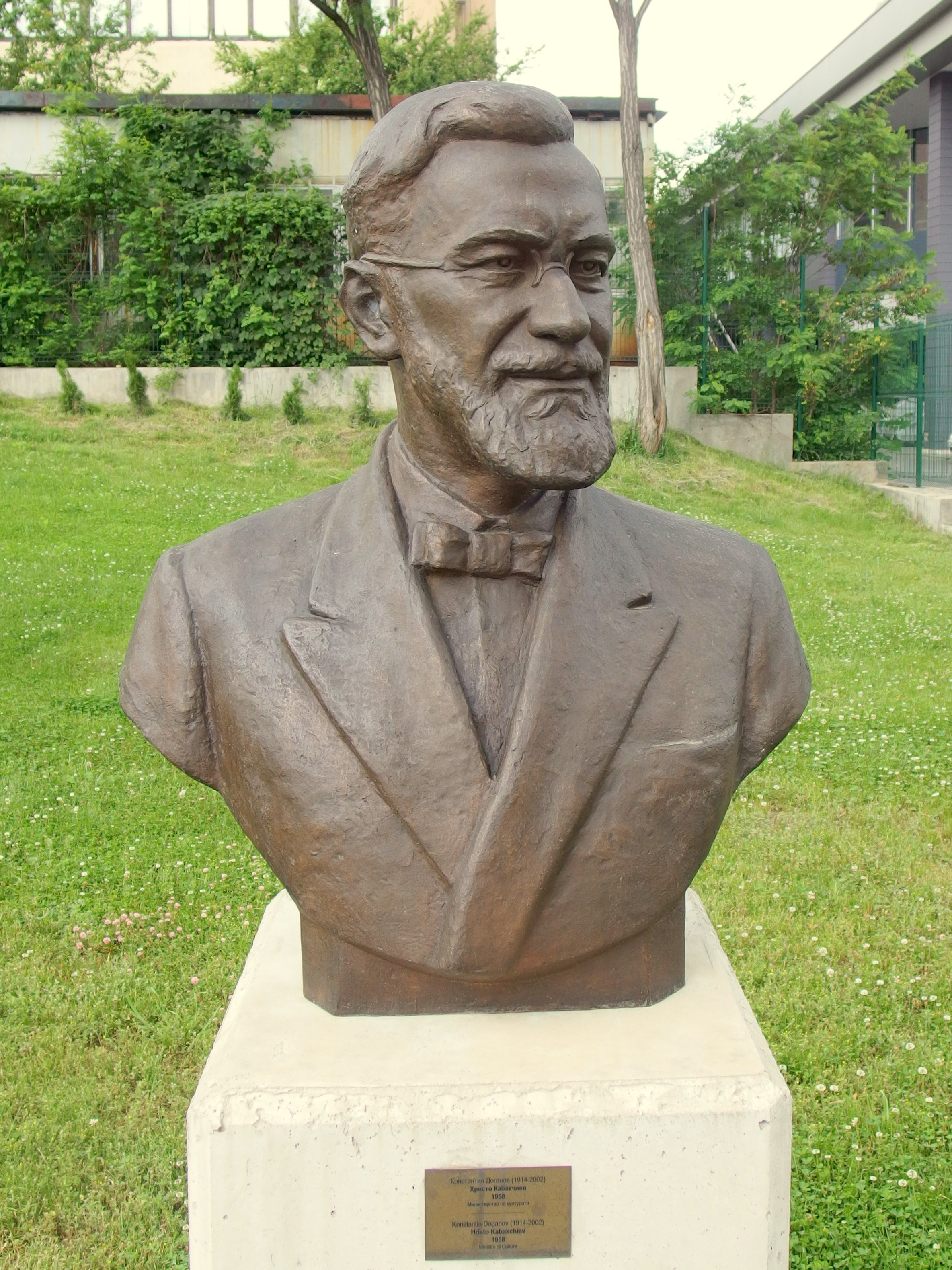 2014-06-15 in the Museum of socialist art (Sofia).